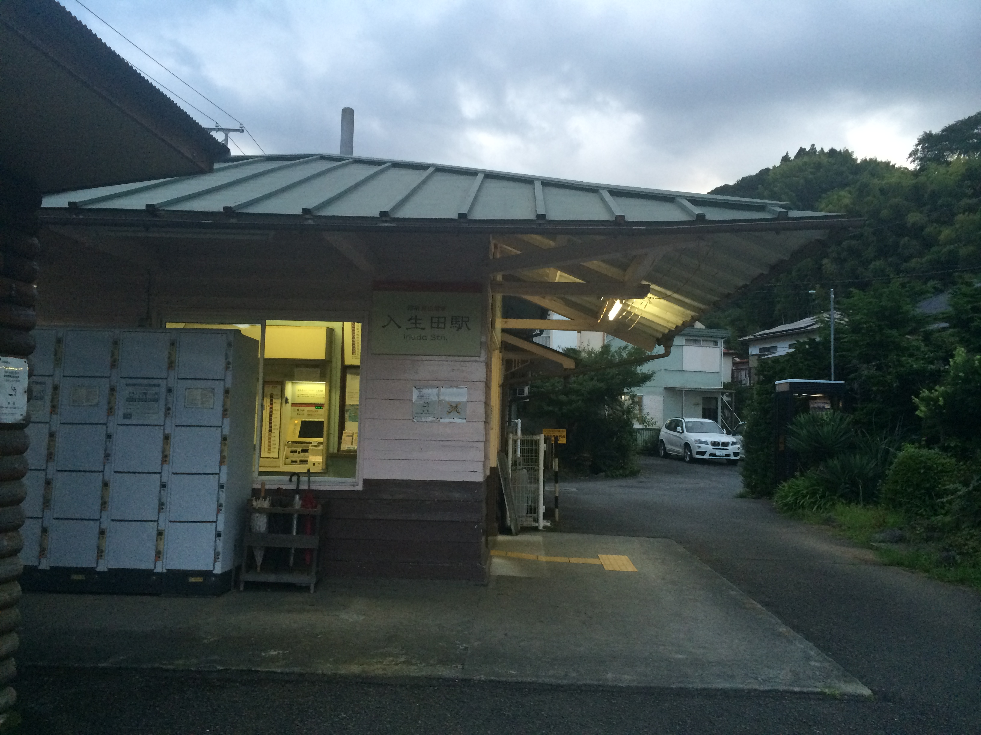 Iriuda Station on the Hakone Tozan Line